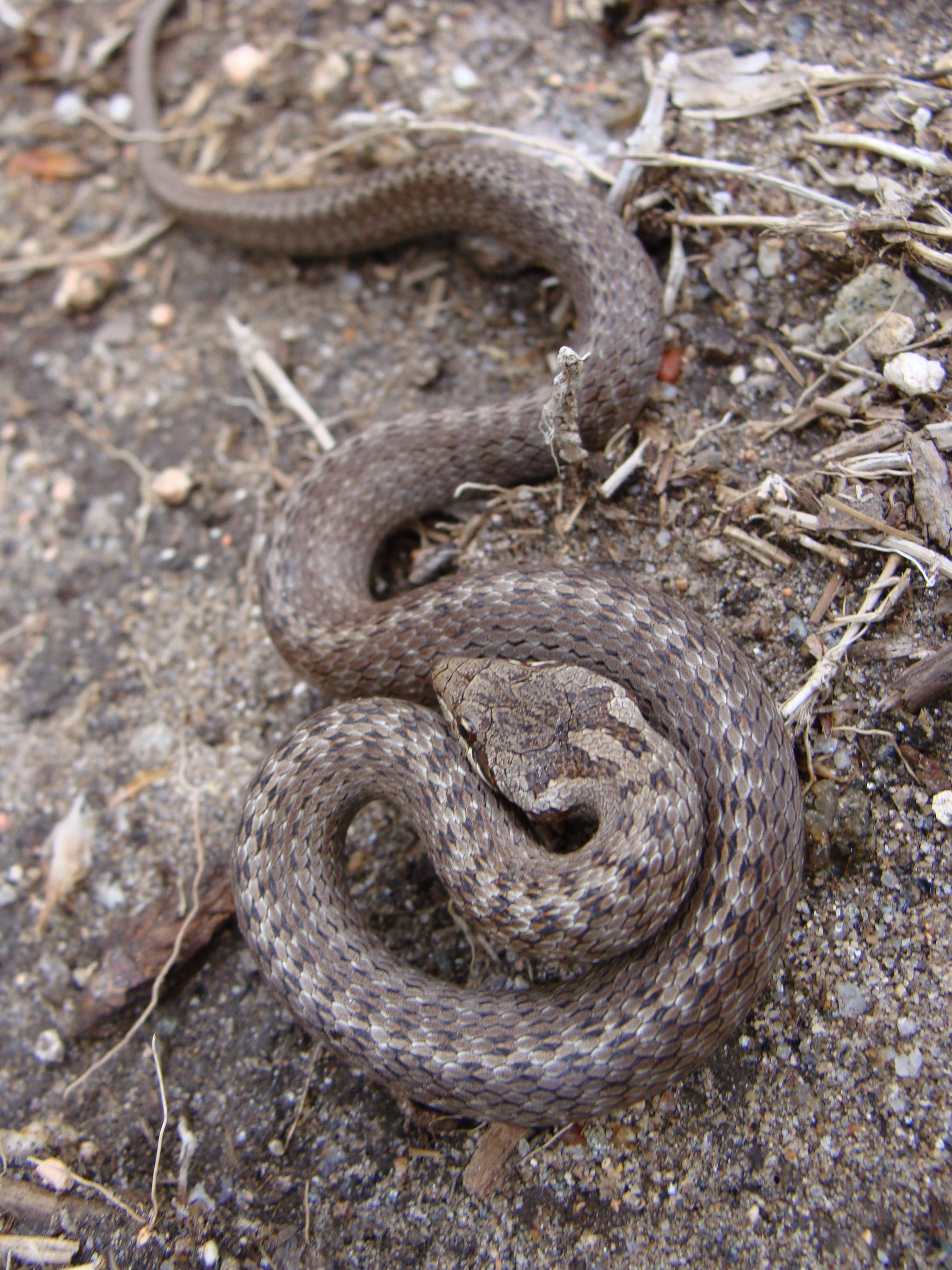 Coronella austriaca in the Peneda-Gerês National Park, Portugal.